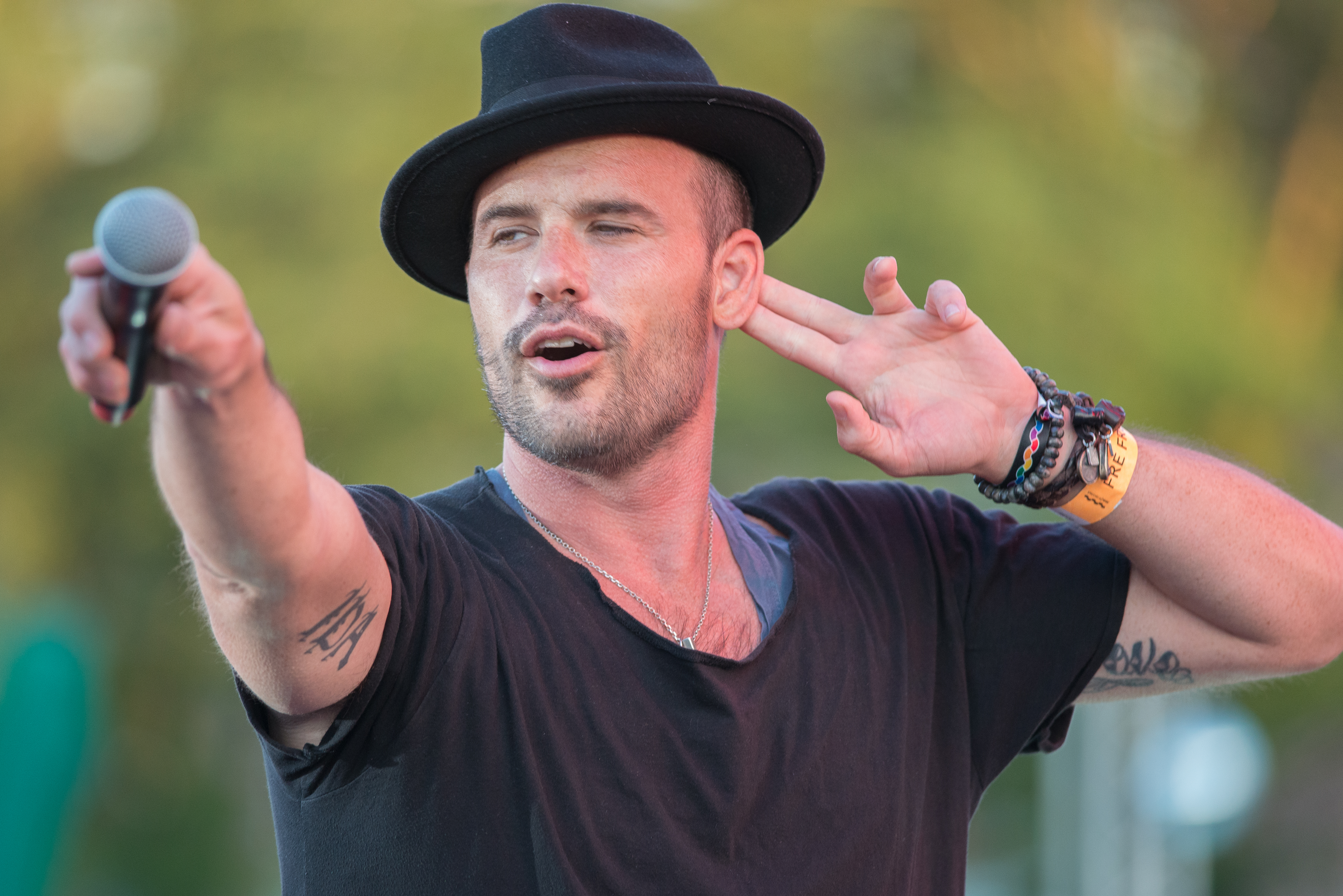 Martin Stenmarck July 2014